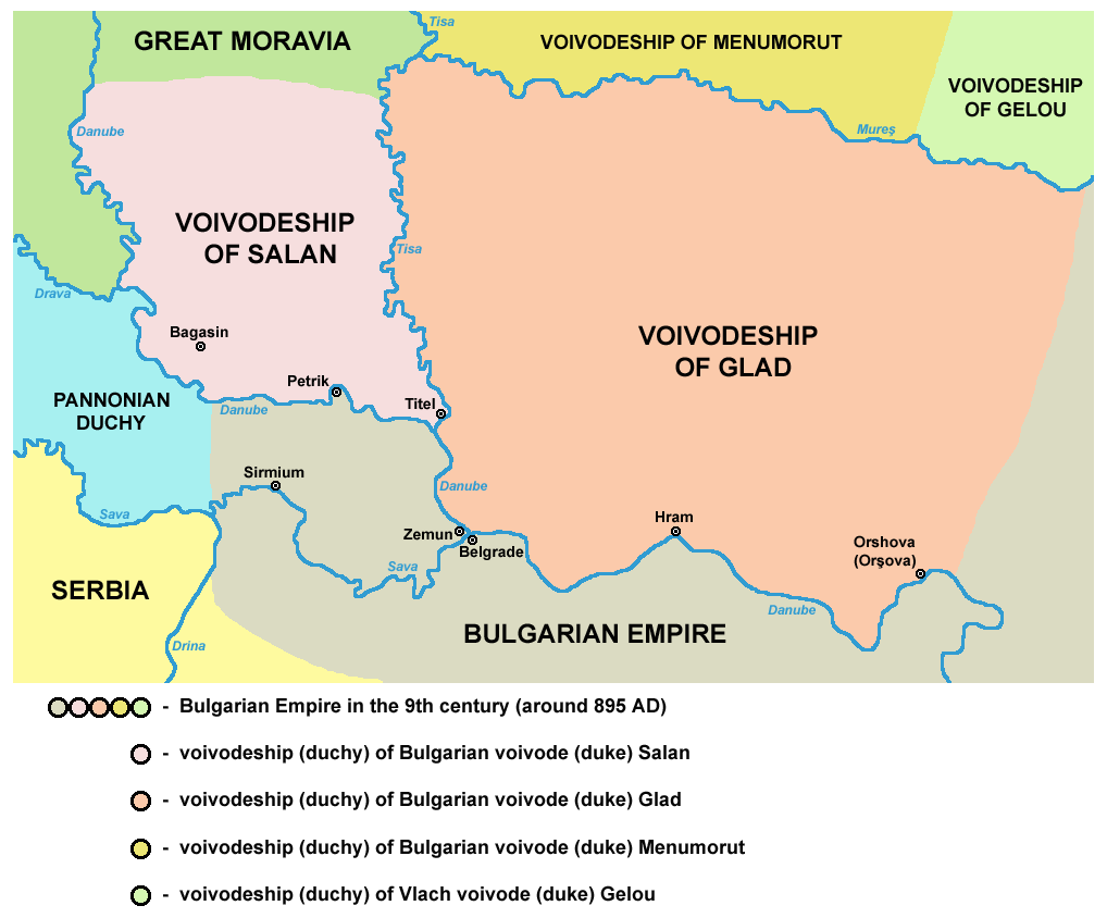 historical map of medieval duchies of Bulgarian dukes Salan and Glad (9th century)